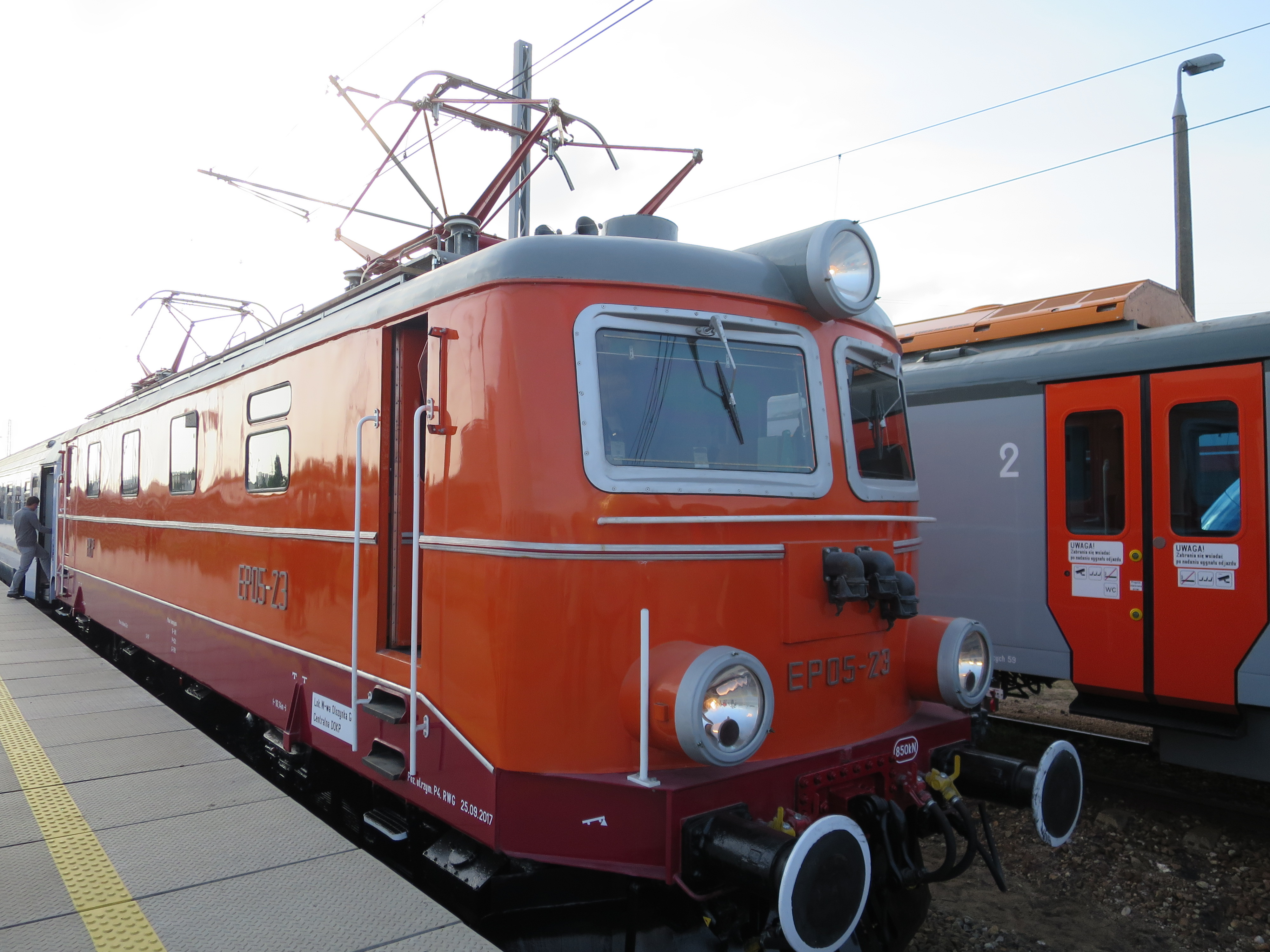 The making of this document was supported by Wikimedia Polska Association, within Wikigrant no. WG 2017-44. EP05-23